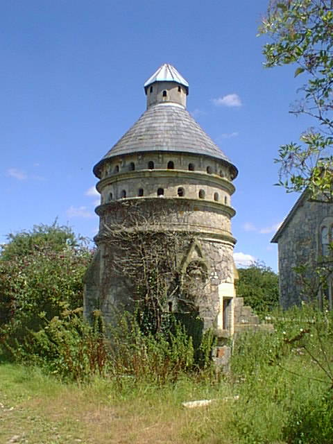 Dovecote at Bemerton Farm, Salisbury, Wiltshire, Dovecote, Bemerton Farm The dovecote was built in 1863 as part of a model farm designed by Samuel Clarke for the Dowager Countess of Pembroke. The circular dovecote with conical slate roof and lantern has two ranges of pigeon holes below the eaves and various other openings.